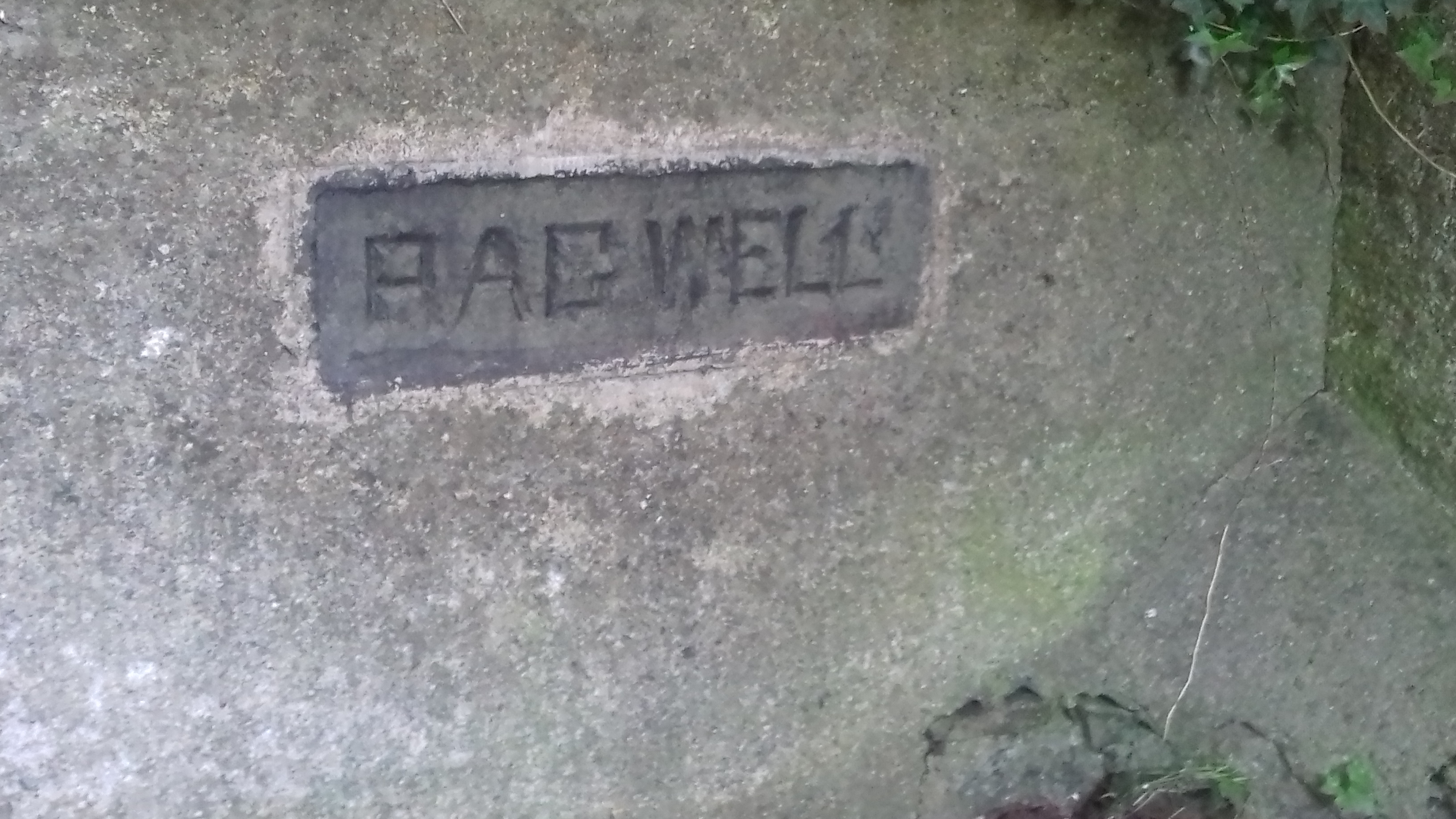 All that remains of the ragwell at Diswellstown. Formerly surrounded by concrete walls and a hand pump. Now covered over. Near the Sandpit cottages on Luttrellstown Road.